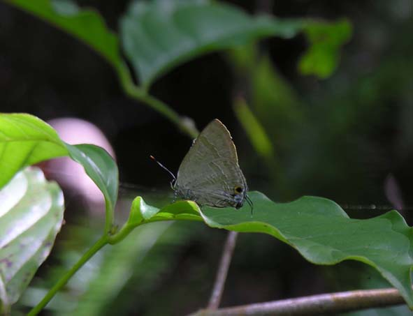 Rapala tomokoae, male, Mt. Canlaon, Negros, Philippines.